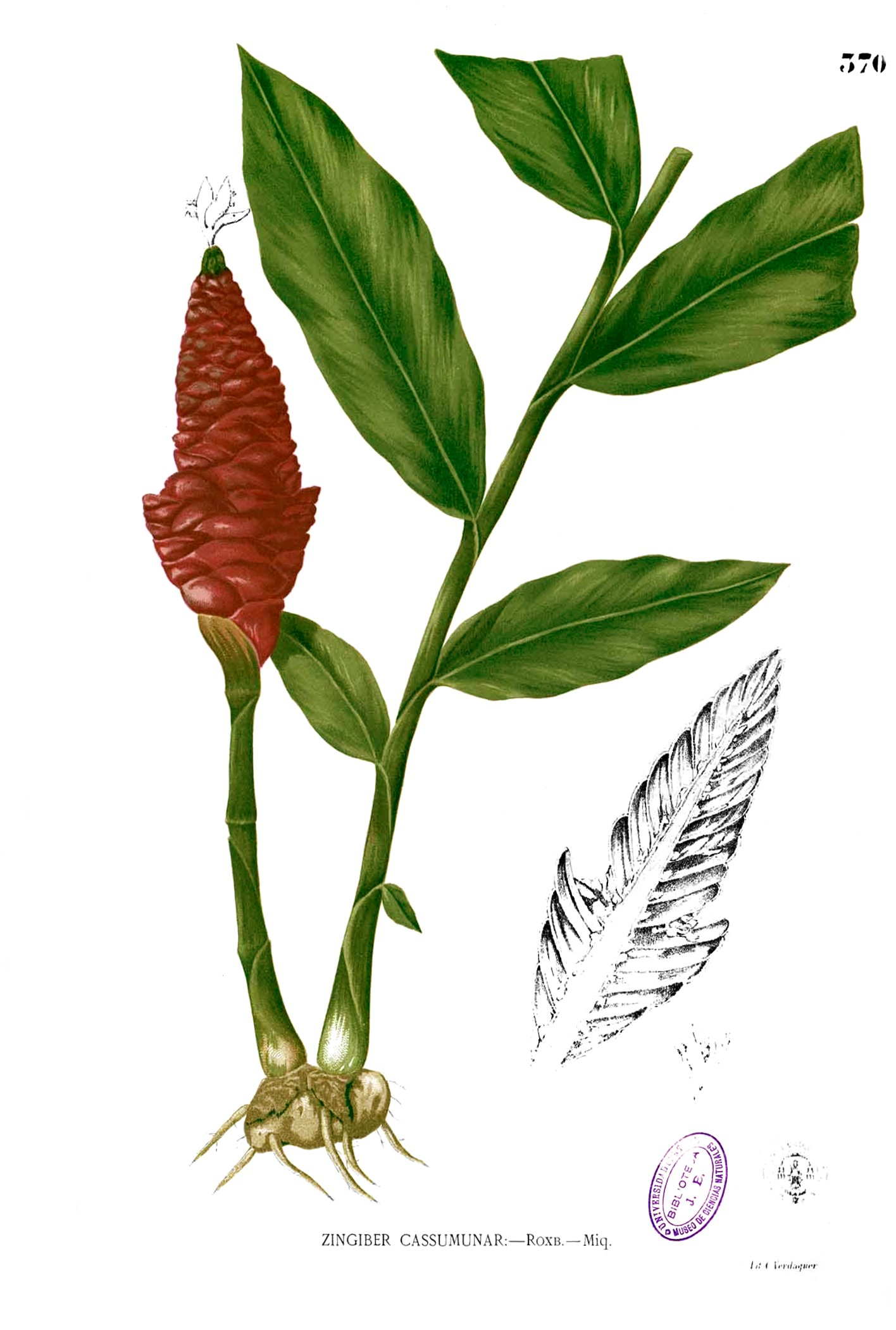 Zingiber montanum Plate from book